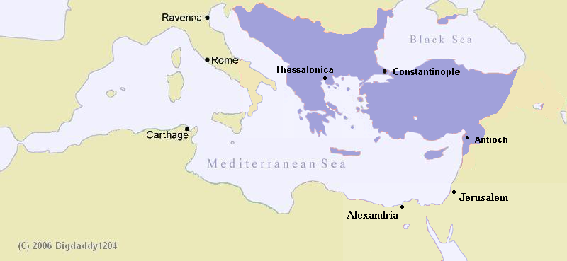 I made it, or edited it from a map that was freely available from one of Wikipedia's users.